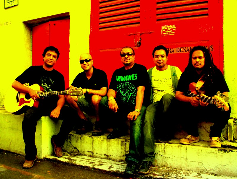 Joi- The band